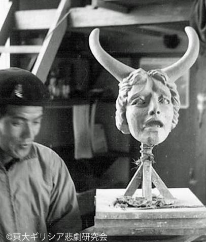 Making a mask of Greek Tragedy Tokyo University Greek Tragedy Institute